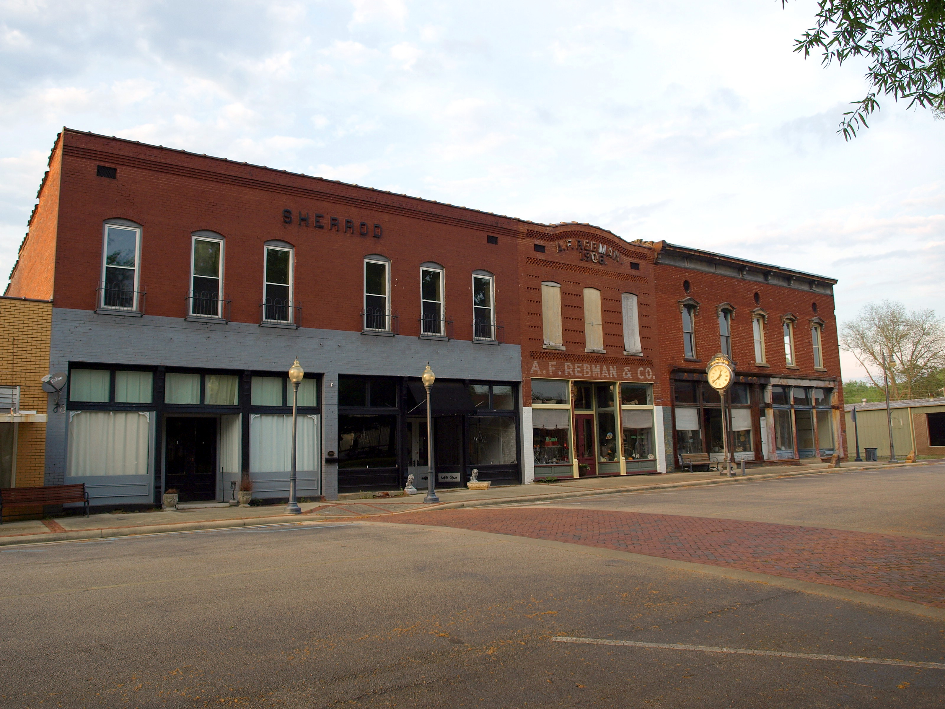 Commercial buildings on Tennessee Street in Courtland, Alabama, part of the Courtland Historic District, listed on the National Register of Historic Places.